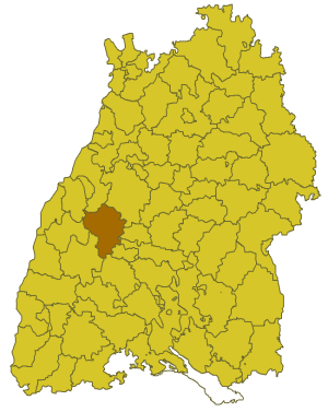 Map of Baden-Württemberg with the former county of Freudenstadt before 1973